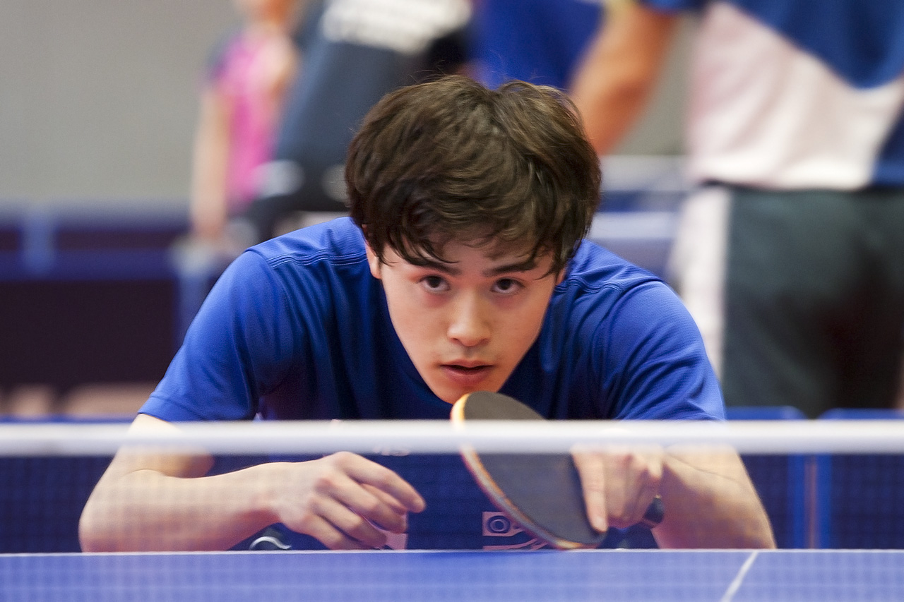 ITTF World Tour 2017 German Open, Magdeburg, Germany, 7 Nov 2017 - 12 Nov 2017, Masataka Morizono